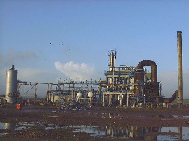 Kerosene Hydrotreater, Shell Haven The KHT is now demolished.